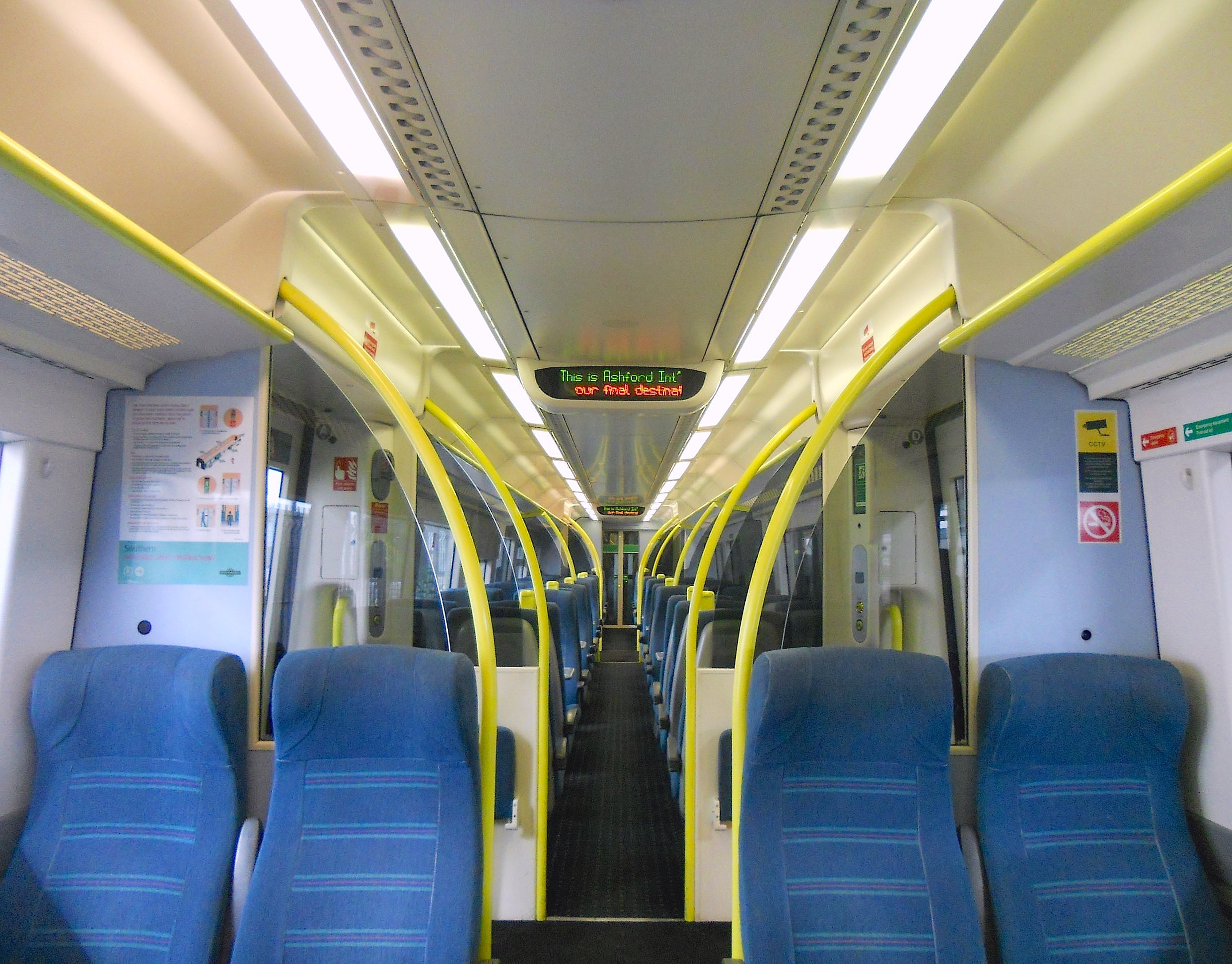 The interior of the Standard Class accommodation from a Southern Railway Class 171